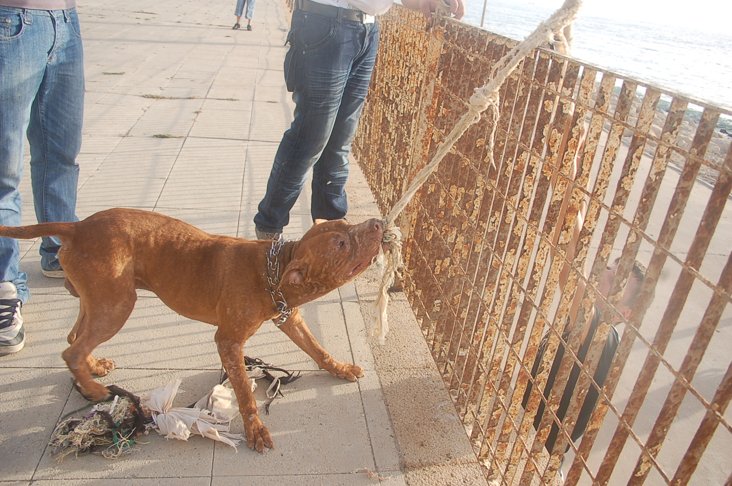 magnom training